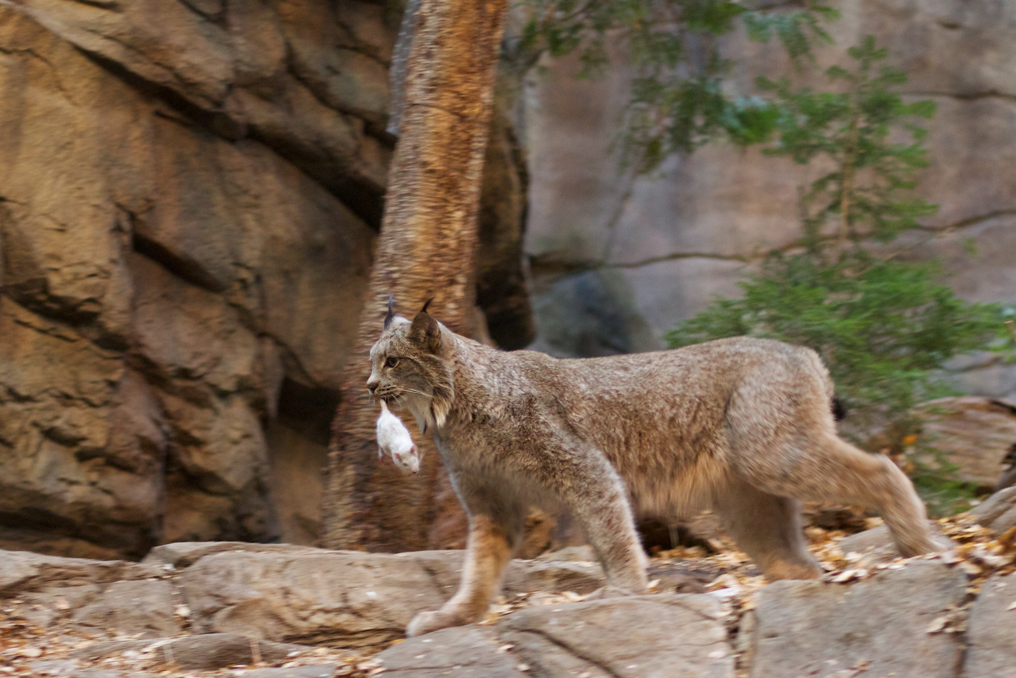 Canada Lynx at the Montreal Biodome